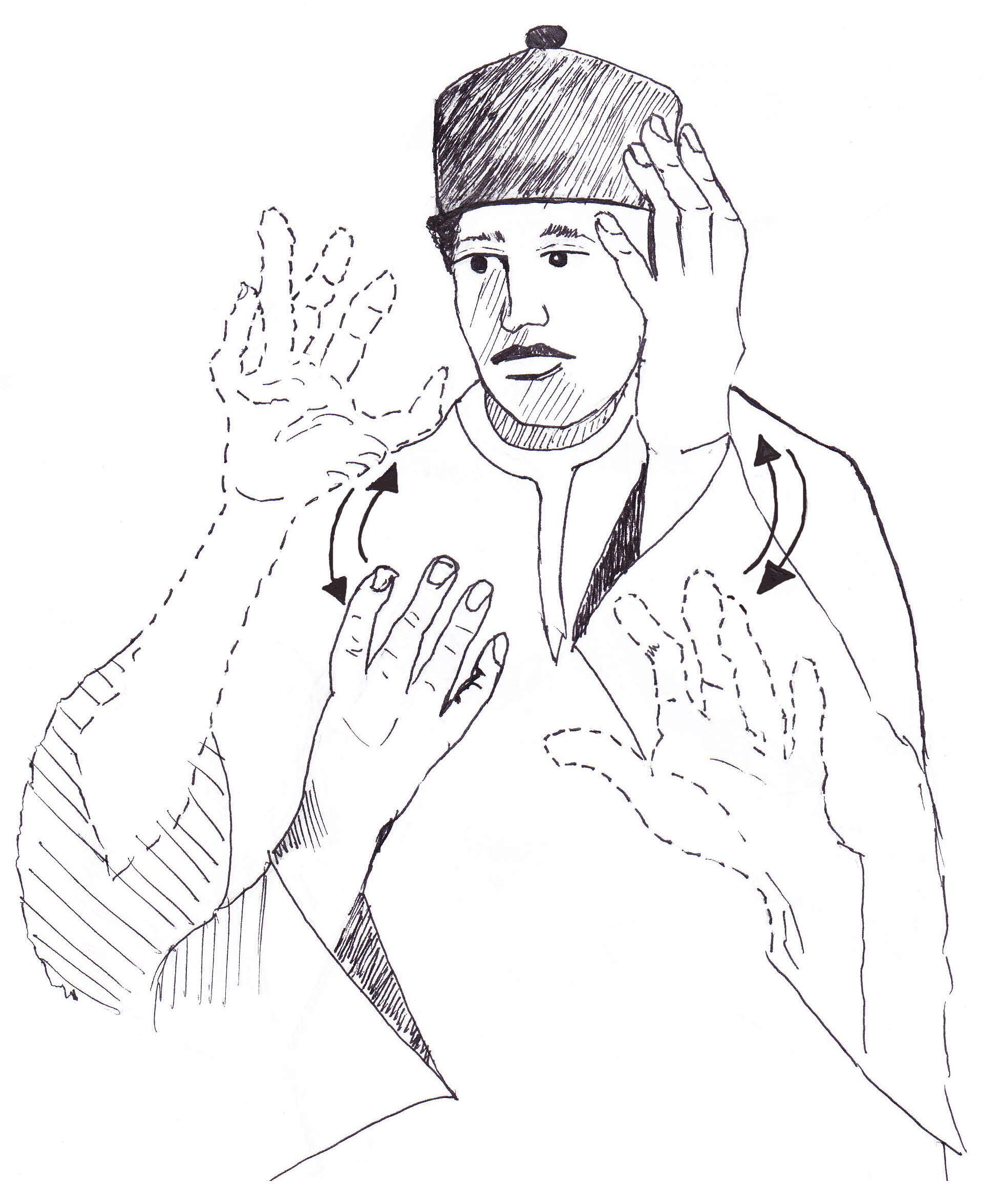 The sign for Magnar Hannu in the sign language Magnar Hannu (Hausa Sign Language)